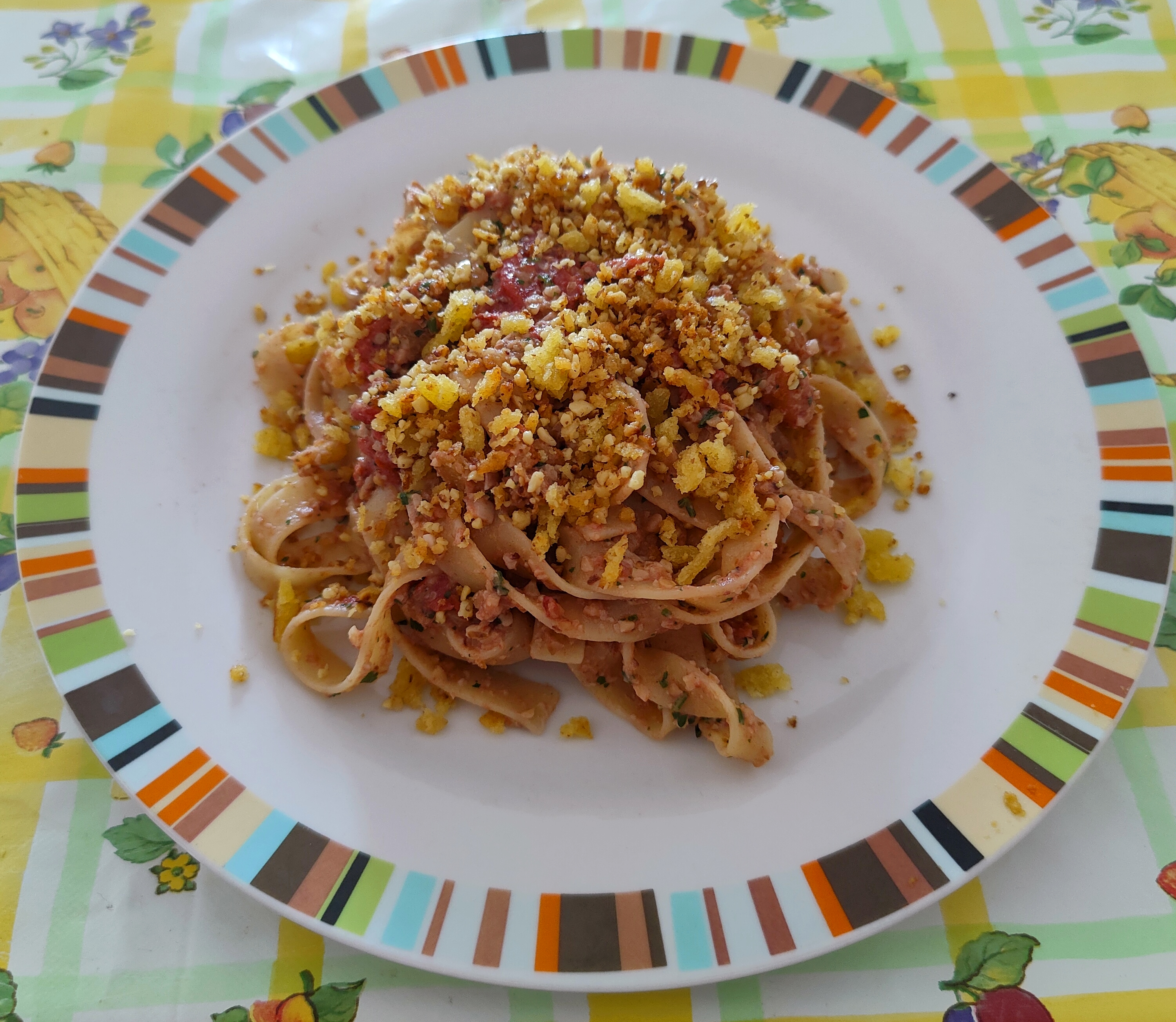 Tumact me tulez, traditional dish from Barile, Basilicata